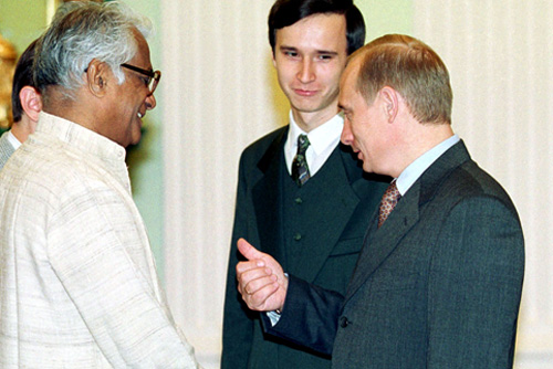 THE KREMLIN, MOSCOW. President Putin with Indian Defence Minister George Fernandes.